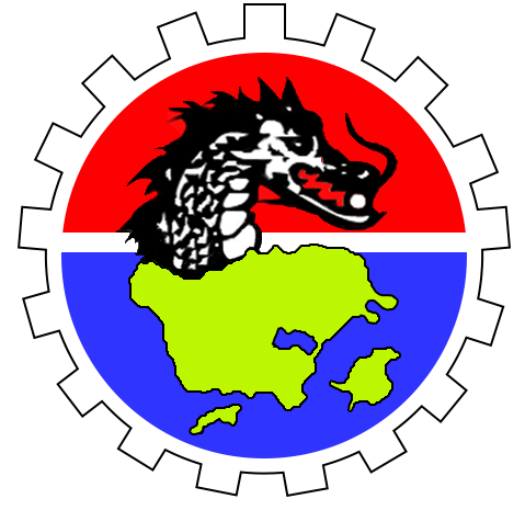 Republic of Korea Marine Corps Black Dragon Unit(Baekryeong Unit, 6th Marine Brigade) Insignia